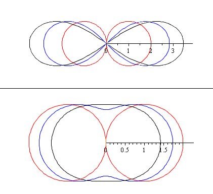 Shapes of a hippopede